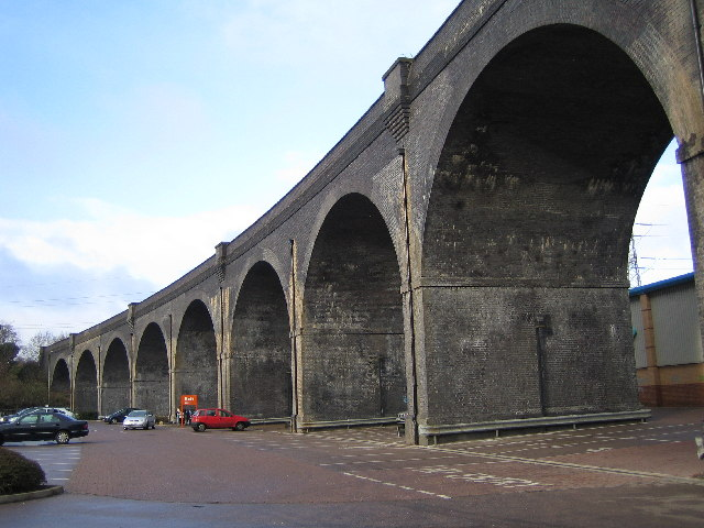 Watford: River Colne railway viaduct. The viaduct was originally built, and is still in use, to carry local trains from Bushey to Watford High Street stations over the valley of the River Colne. The diverted loop of Watford's Lower High Street now passes through two of the arches on the north side of the river while the remaining arches straddle the car park of the unsurprisingly named Arches Retail Park.